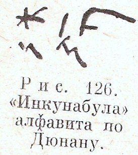 Symbols of early alphabetic script